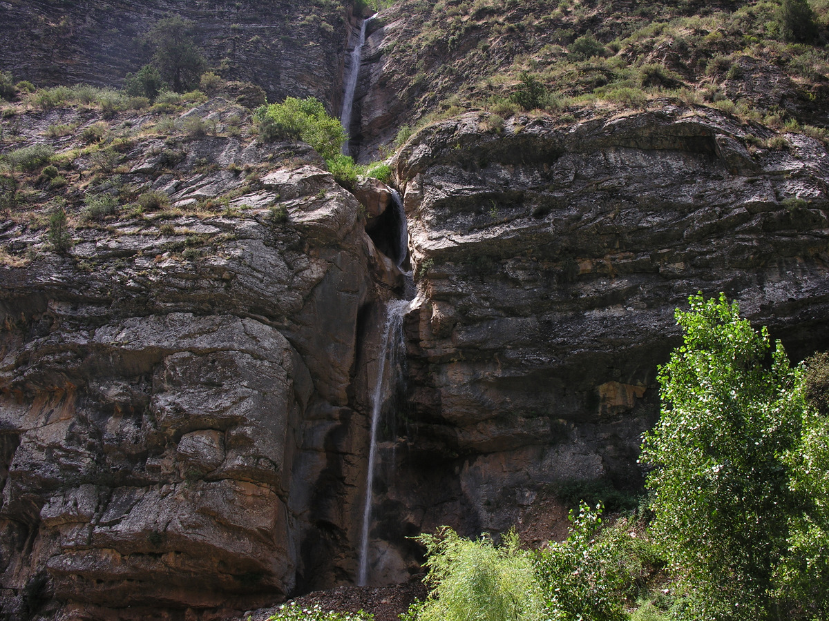 Waterfall at the Koksu river. Uzbekistan